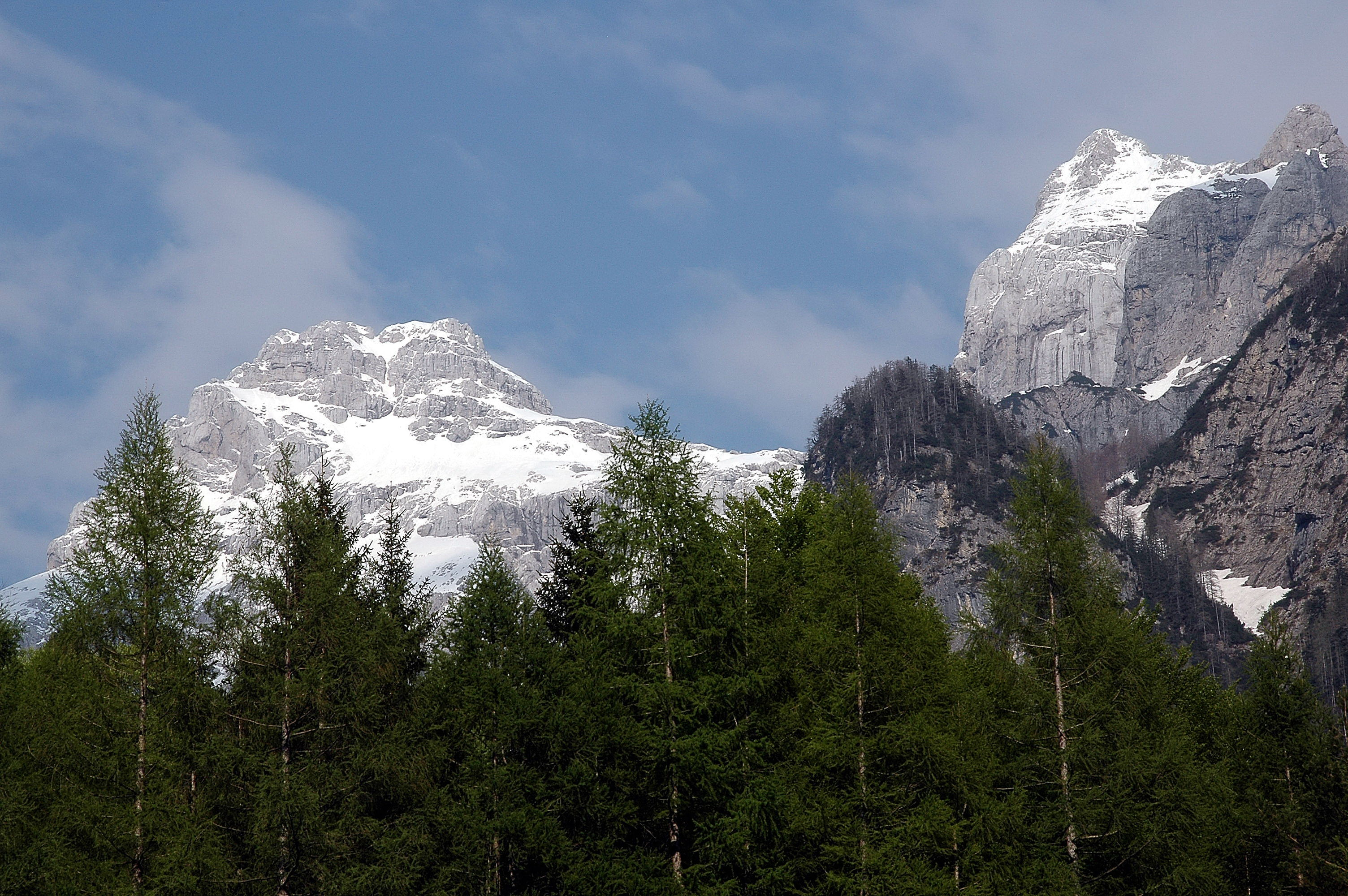 Mojstrovka in the Julian Alps, part of the Triglav National Park, Slovenia